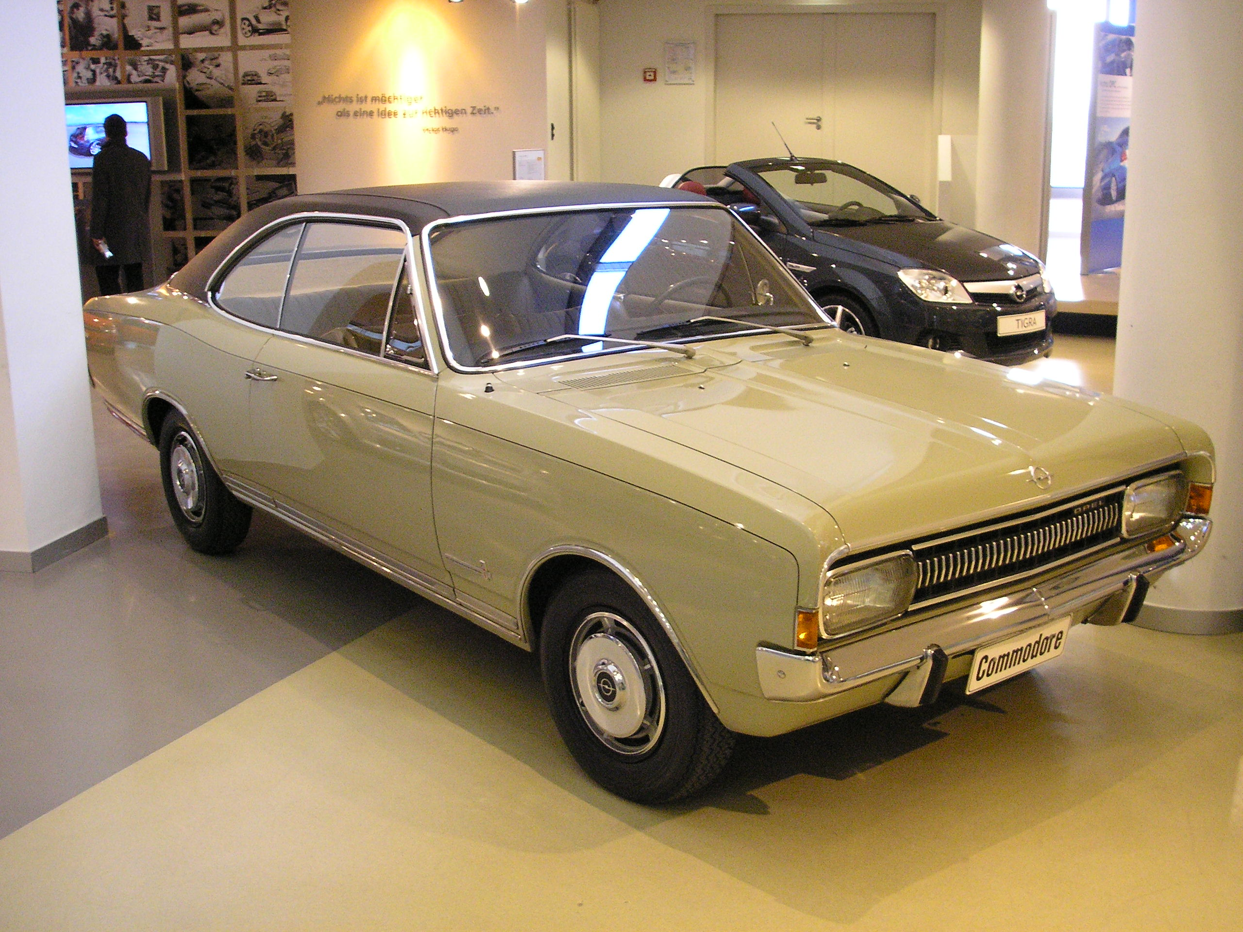 Description: Opel Commodore, im Opel Zentrum in Berlin an der Friedrichstraße. Baujahr 1967. Opel Commodore, from 1967. Source: self-made, I release it into the public domain. Gryffindor 17:24, 9 March 2006 (UTC)